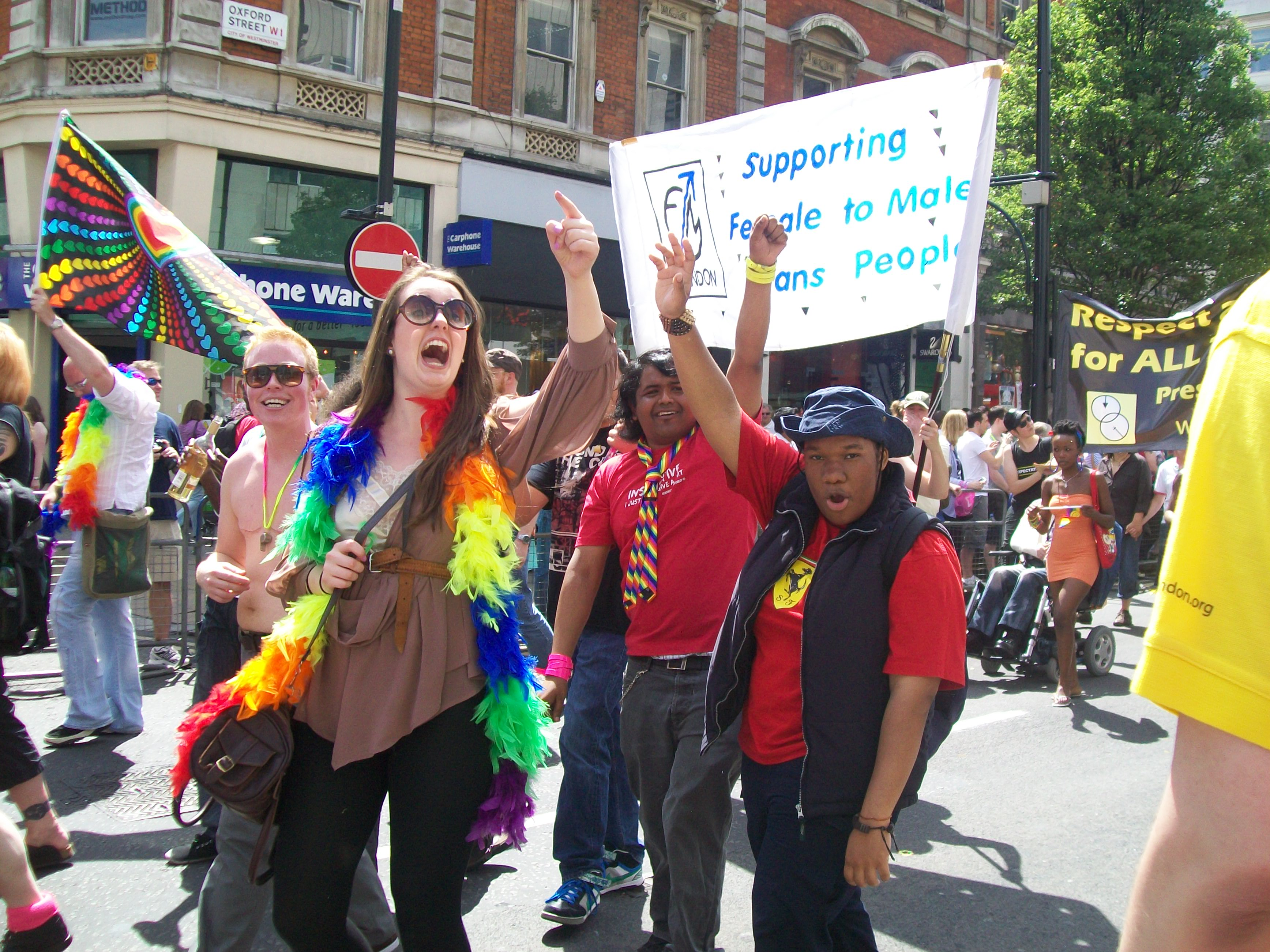 Pride London, 3 July 2010.